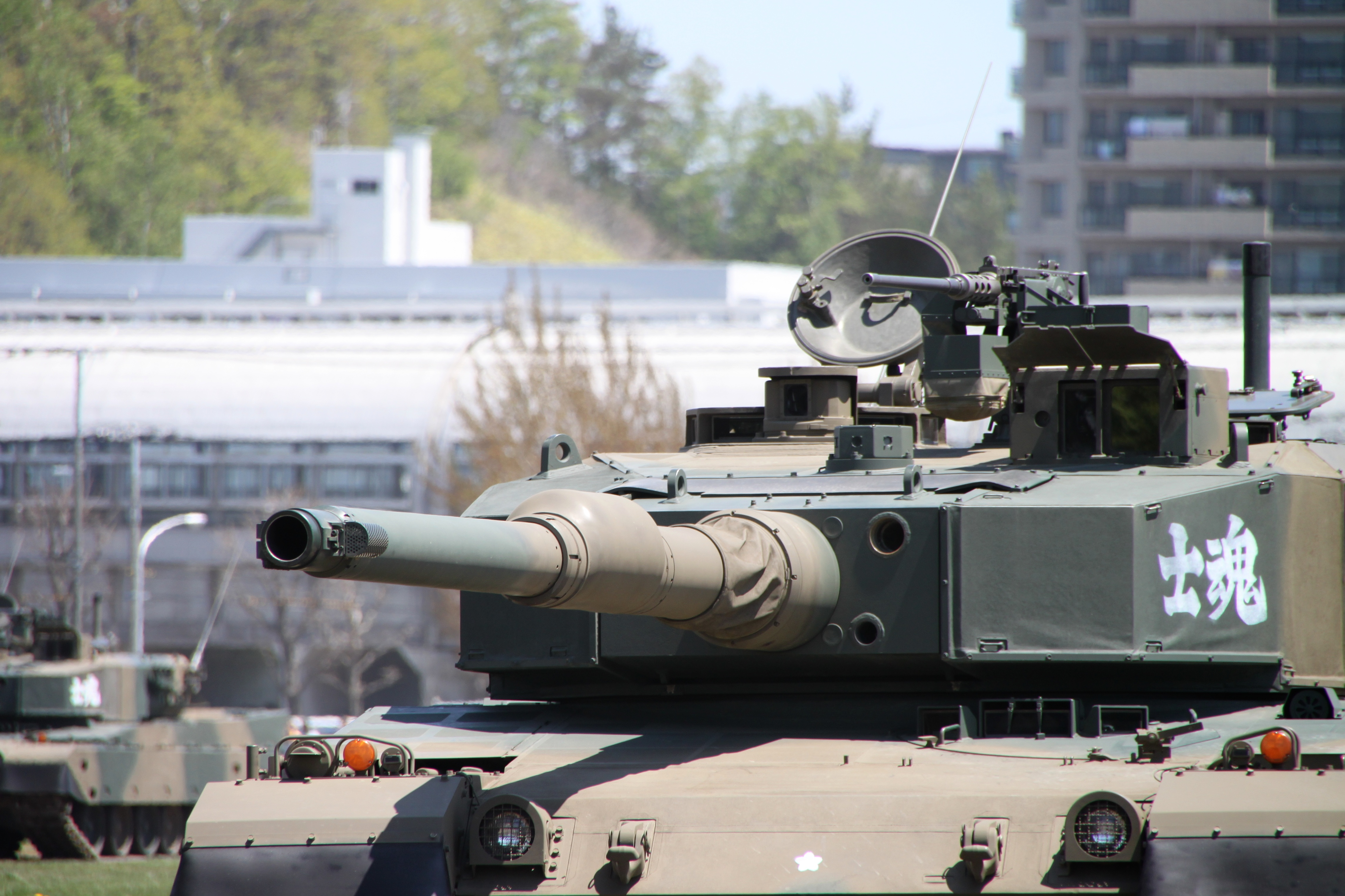 Japan Ground Self-Defense Force.